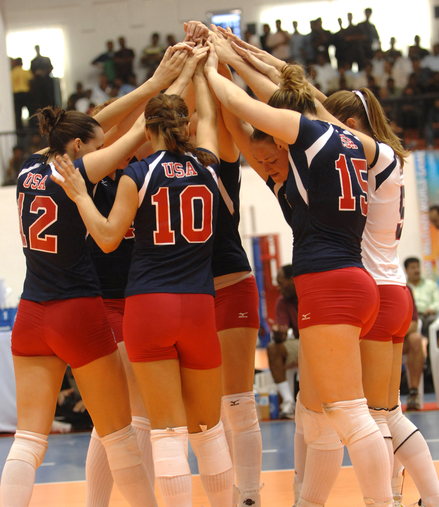 The U.S. Womens Volleyball team huddles together during a match against the Netherlands at the 4th Conseil Internationale du Sport Militaire's (CISM) Military World Games in Hyderabad, India on 18th Oct. 2007. The U.S. went on to win in three games, 25-14, 25-16, 25-18. The Conseil Internationale du Sport Militaire's (CISM) Military World Games is the largest international military Olympic-style event in the world. In this year's fourth edition of the Games, 103 countries and more than 5,000 athletes are scheduled to compete Oct. 14-21 in boxing, diving, football (soccer), handball, judo, military pentathlon, parachuting, sailing, shooting, swimming, volleyball and track and field. The purpose of the Military World Games is to promote "friendship through sport."